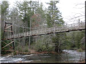 The Toccoa Bridge, a 260-foot swinging bridge over the Toccoa River in Chattahoochee Oconee National Forest, Georgia. Transwiki approved by: User:Dmcdevit